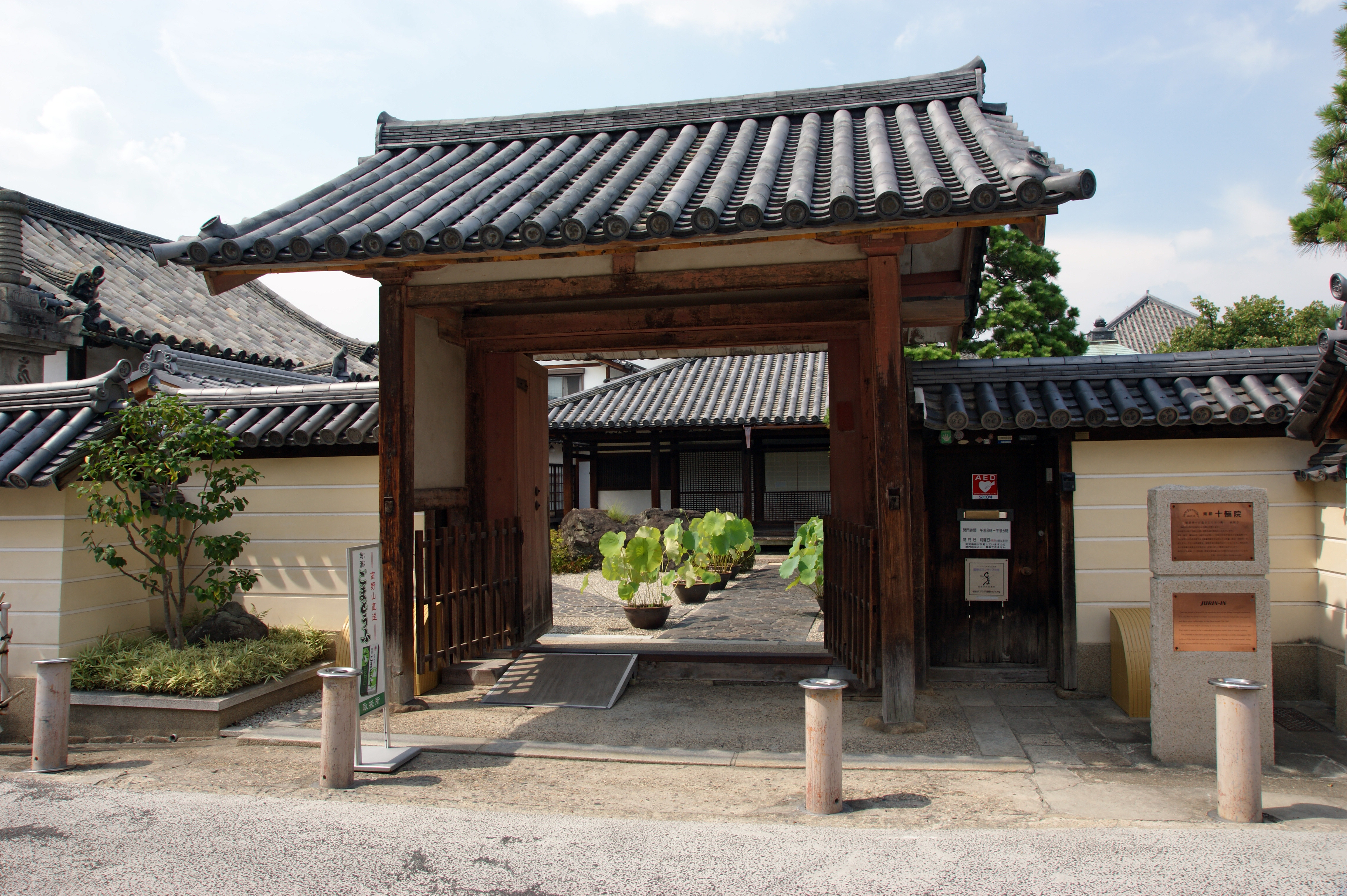 Jurinin, Nara, Nara prefecture, Japan